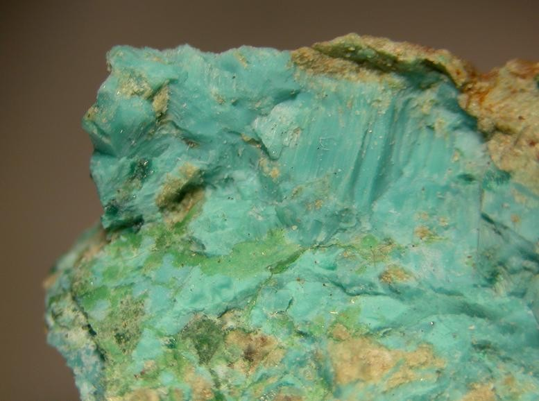 Moolooite Locality: Sarbaiskoe deposit (Sarbai; Sarbay Mine), Qostaney Oblysy (Kostanai "Kustany" Oblast'), Kazakhstan (Locality at ) Blue massive Moolooite (analysed). Field of view 12 mm. Specimen and photo Leon Hupperichs.